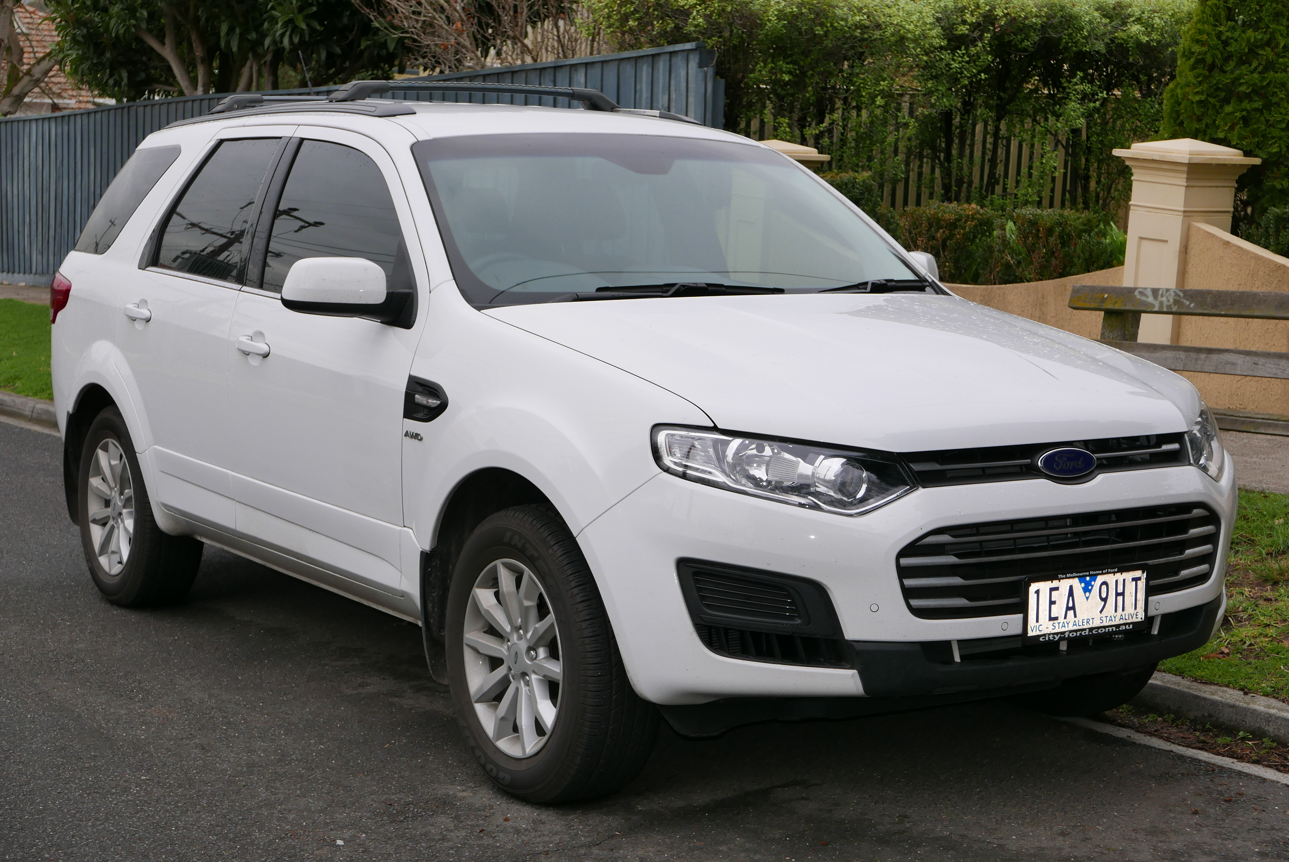 2015 Ford Territory (SZ II) TX AWD wagon. Photographed in Ivanhoe, Victoria, Australia. Vehicle registration enquiry resultsJurisdictionVictoriaRegistration1EA9HTChassis code6FPAAAJGATFK79247Engine code0898940276DTCompliance date2015-02Year of manufacture2015